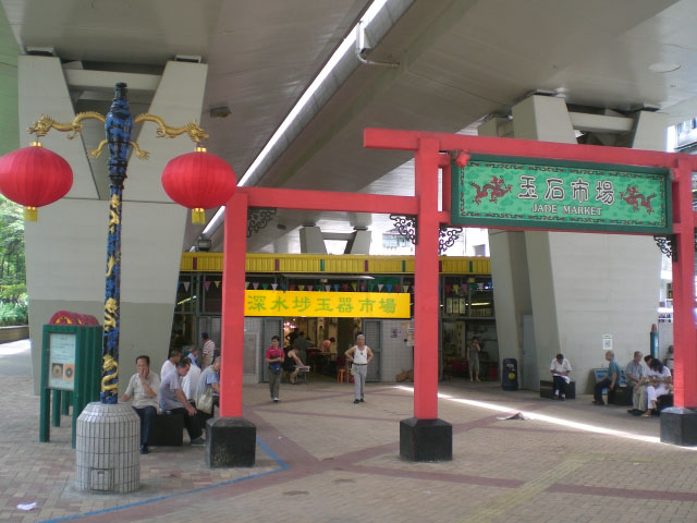 通州街玉石巿場是香港旅遊景點之一, 位於深水埗通州街。